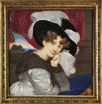 PIETRO DE ROSSI (RUSSIAN, 1761-1831) Princess Alexandrine Saltykova, in white satin dress with mink collar and cuffs, pearl necklace with emerald-cut sapphire and pearl clasp, Prussian blue velvet bow and hat adorned with ostrich plumes, chestnut hair dressed in ringlets, her left arm leaning on a royal blue velvet pillow with gold embroidery and tassels; damask curtain with gilt tie-back and classicising landscape background signed and dated 'P de Rossi f: 1828.' (lower left) on ivory rectangular, 4 1/8 x 4 1/16 in. (106 x 103 mm.), ormolu frame with concentric waterleaf and tongue and scroll and trefoil borders, elaborate foliate motifs and medallions adorning the spandrels, ornately scrolled and festooned frame wings Provenance The sitter's daughter, Anastasia Sergeyevna Saltykova (1810-1853), Imperial Russian lady-in-waiting and wife of Royal Norwegian Embassy Counsellor Christian Fredrik Jacob von Munthe af Morgenstierne (1806-1886). Their only daughter Alexandra Cathrine Henriette von Munthe af Morgenstierne (1838-1881), wife of Christian Carl Otto Lasson (1830-1893). Their fifth child Marie Lasson (b. 1864). Thence by family descent.